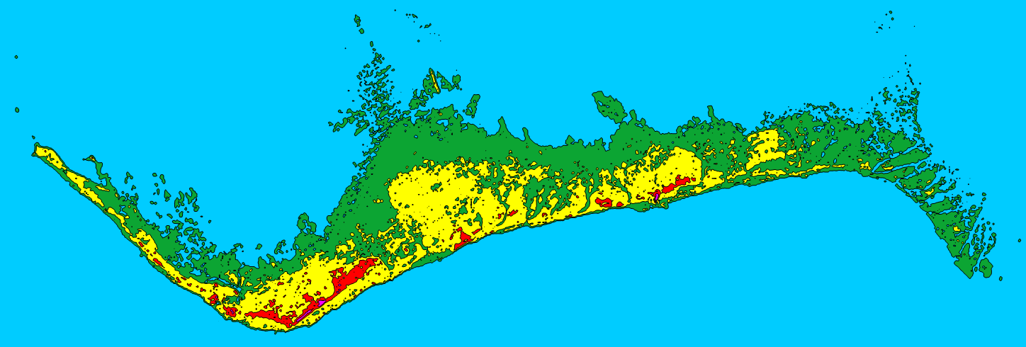 Topographic map of Grand Bahama Island, Bahamas shaded at 15 foot (4.572 meter) contour intervals. MAP KEY Light Blue: 0 ft (0.0 m) Green: 0-15 ft (0.0-4.6 m) Yellow: 15-30 ft (4.6-9.1 m) Red: 30-45 ft (9.1-13.7 m) Violet: 45+ ft (13.7+ m) Map created with SRTM3 digital elevation data ( Resolution is ~90 meters.